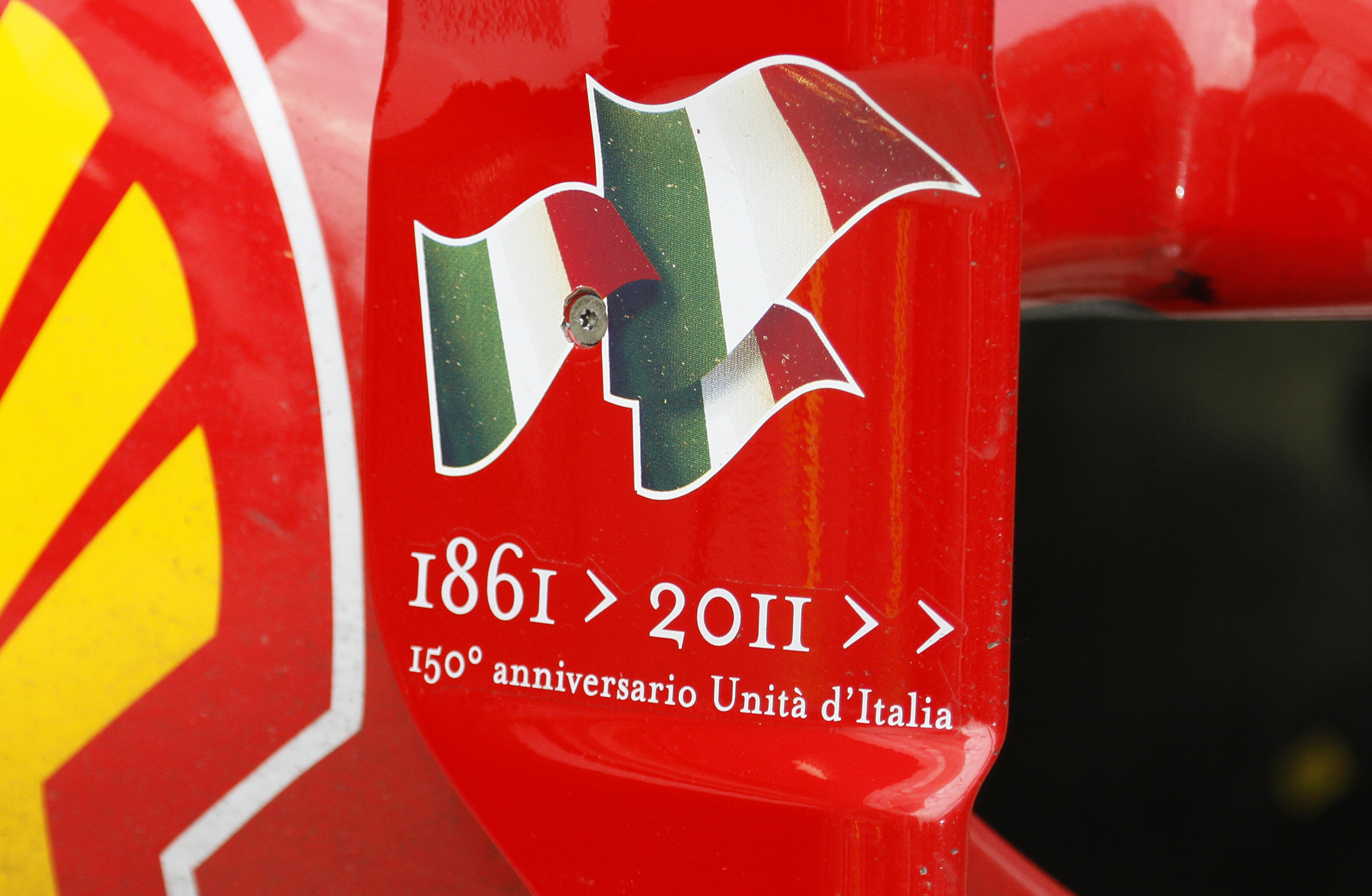 Formula One 2011 Rd.2 Malaysian GP: Ferrari 150° Italia's side fin